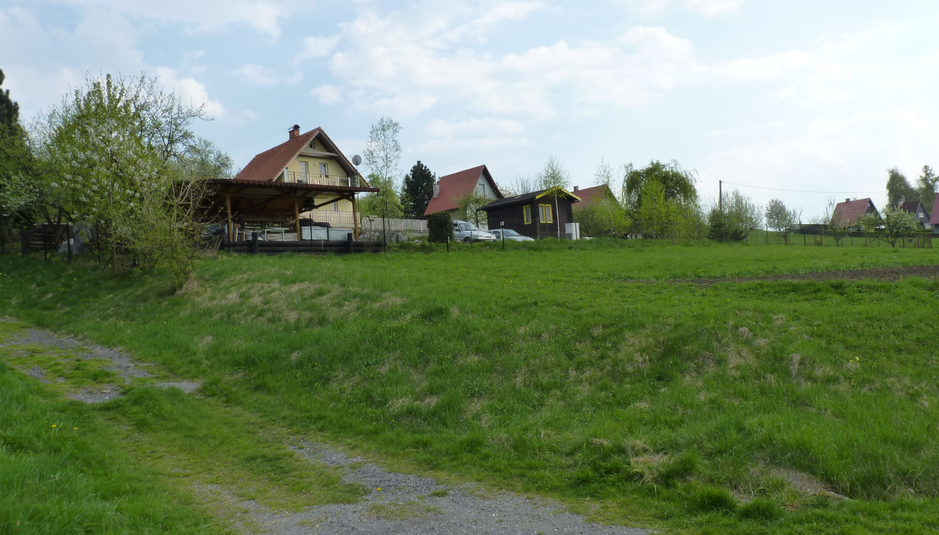 Dolní Těrlicko, Karviná District, Moravian-Silesian Region, Czech Republic